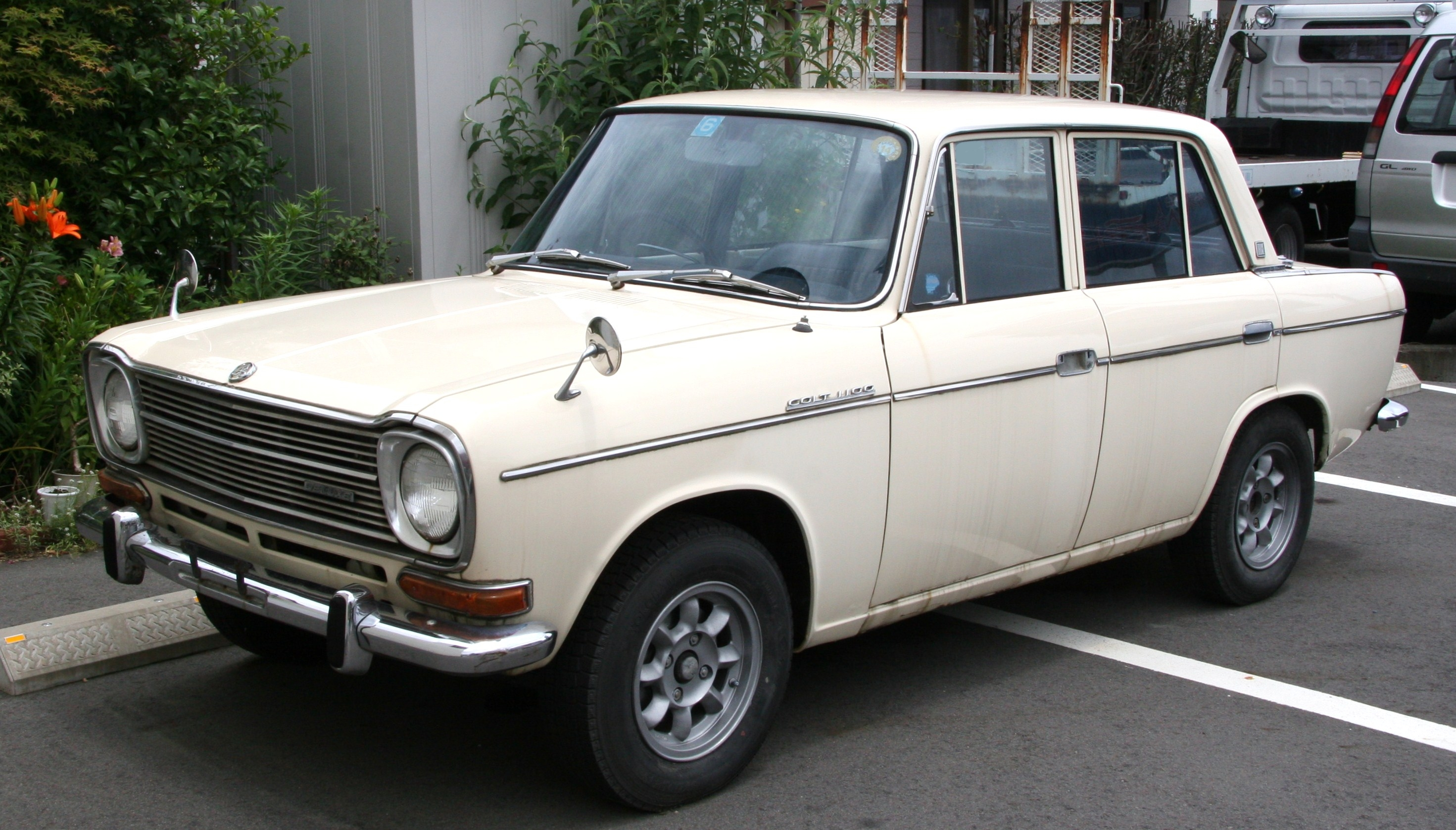 Mitsubishi Colt 1100